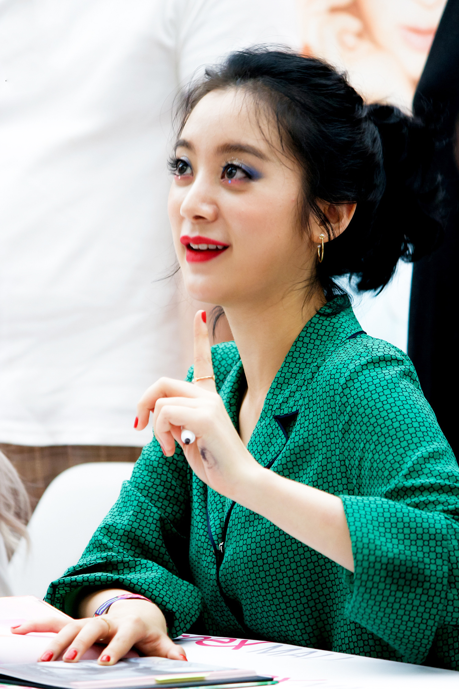 Woo Hye-rim at a fanmeet on July 15, 2016.